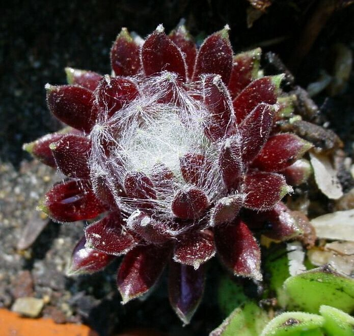 Houseleek-Cultivar Sempervivum arachnoideum 'Smit's Seedling, breeder Gustaaf van der Steen/1977.